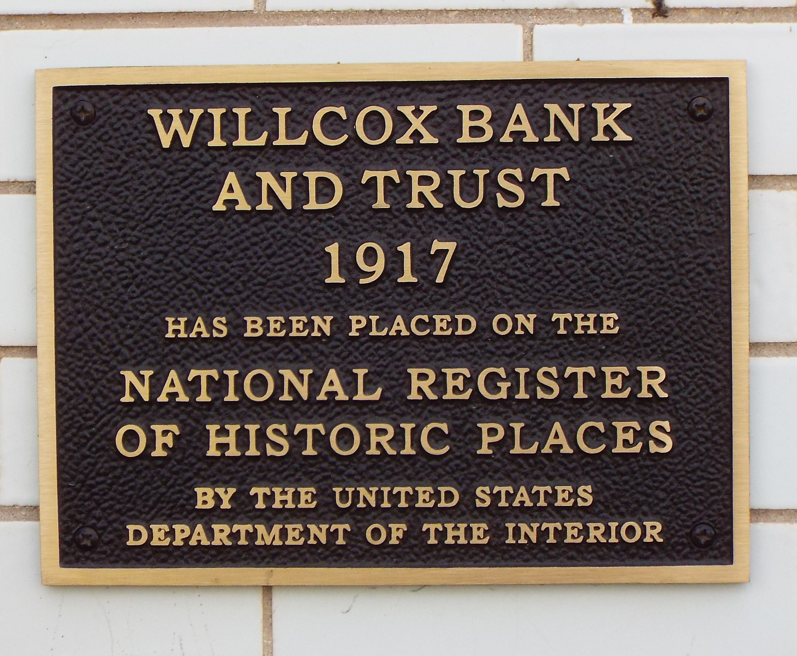 Willcox Bank and Trust-1917-National Register of Historic Places marker in Willcox, Arizona